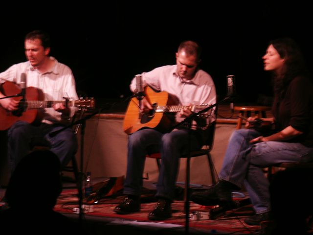 Redbird, Peter Mulvey, Jeffrey Foucault and Kris Delmhorst